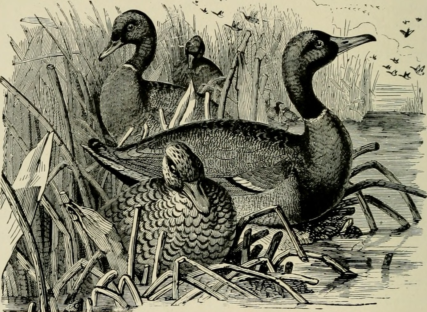 Title: The American Museum journal Year: c1900-(1918) (c190s) Authors: American Museum of Natural History Subjects: Natural history Publisher: New York : American Museum of Natural History Text Appearing Before Image: I40 THE AMERICAN MUSEUM JOURNAL Baldpate; American Widgeon (Marcca amcricana). An irregular transient visitant. European Green-winged Teal (Xcttion crecca). An Old World species of rare occurrence on our coasts. It is recorded from Trenton, N. J. (Abbott, Geology of New Jerse\-, 1868, p. 792), Hartford, Conn. (Treat, Auk, VIII, 1891, p. 112). and from Merrick, L. I., wbere two specimens were captured in December, 1900 (Braislin, Auk, XIX, 1902. p. 145). Green-winged Teal (Ncttion caroUncnsis). A rather unconmion spring and fall migrant and winter resident. Text Appearing After Image: Fig. 4. Mallards. Blue-winged Teal (Qncrqucdnla discors). A not common spring and common fall migrant. Shoveller; Spoonbill (Spatula clypcata). A rare and irregular transient visitant. Pintail; Sprigtail (Dafila acuta). A common migrant. *Wood Duck; Summer Duck (Aix spoiisa). The Wood Duck is a rare summer resident on some of our more retired, wooded streams and becomes more common during the migrations. The Rufous-crested Duck (Mctta rufina) is an Old World species which is known as N^orth American only from one specimen found in Fulton Market, New York Cit\'. and supposed to have lieen shot on Long Island. Redhead (AytJiya amcricana). On Long Island this species occurs as a regular migrant, in varying numbers, and is occasionally found in the winter (Dutcher, MS).